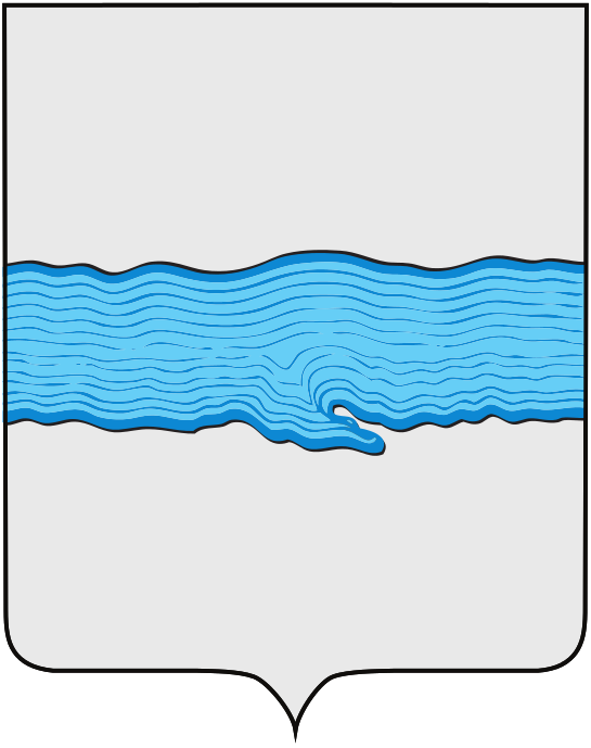 Plyos (Ivanovo oblast), coat of arms (1779)